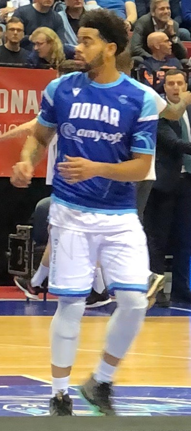 Carrington Love of Donar Groningen.